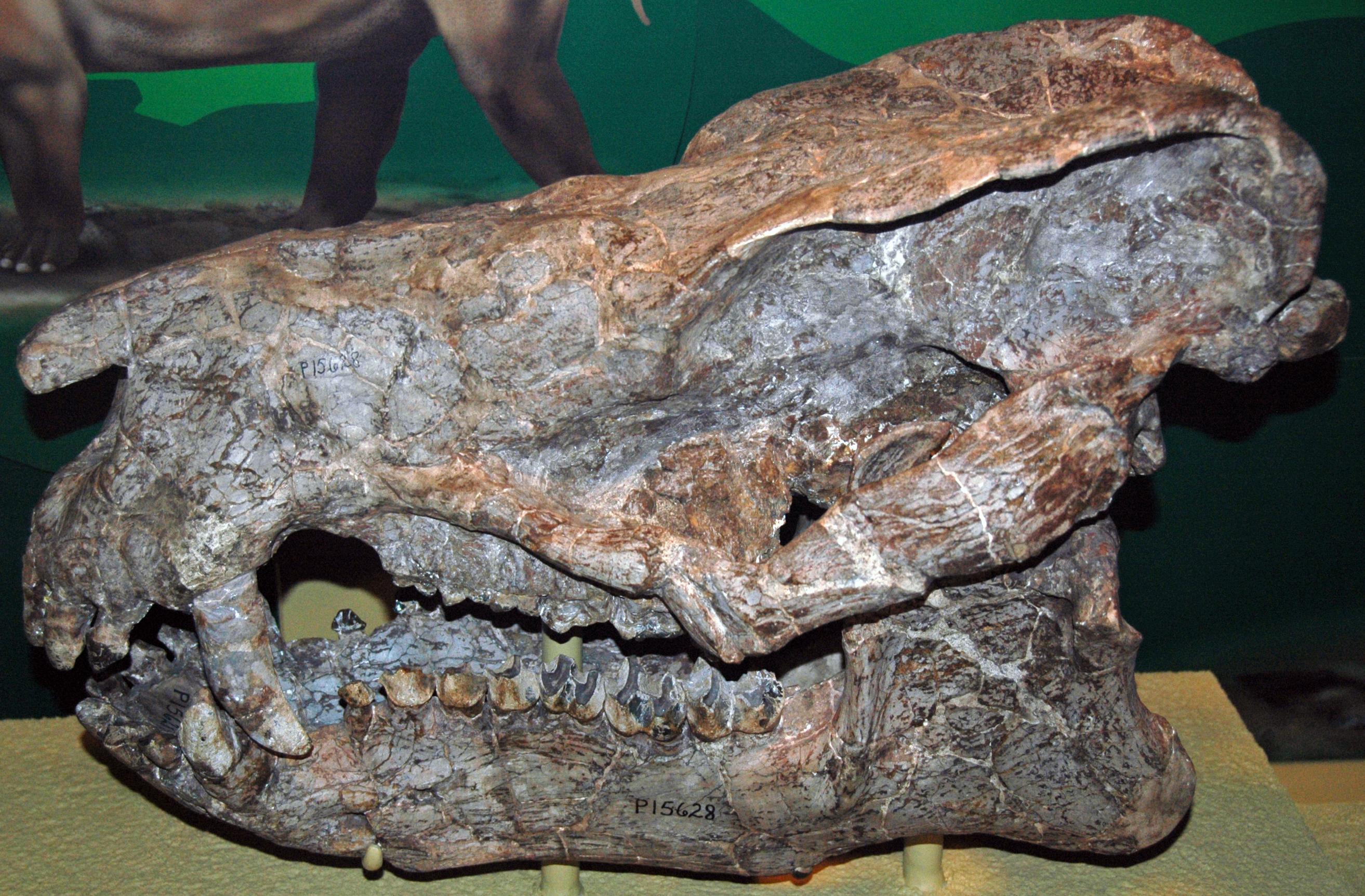 Coryphodon lobatus Cope, 1877 - fossil pantodont mammal from the Eocene of Colorado, USA. (FMNH P15628, Field Museum of Natural History, Chicago, Illinois, USA) From museum signage: "Pantodonts were large, lumbering plant eaters. Coryphodon may have lived part-time in the water, like a hippo: it has teeth similar to a hippo's and a big, hippo-like body." Classification: Animalia, Chordata, Vertebrata, Mammalia, Cimolesta, Pantodonta, Coryphodontidae Stratigraphy: upper Shire Member, upper DeBeque Formation, Lostcabinian Stage, Lower Eocene Locality: Piceance Creek Basin, northwestern Colorado, USA See info. at